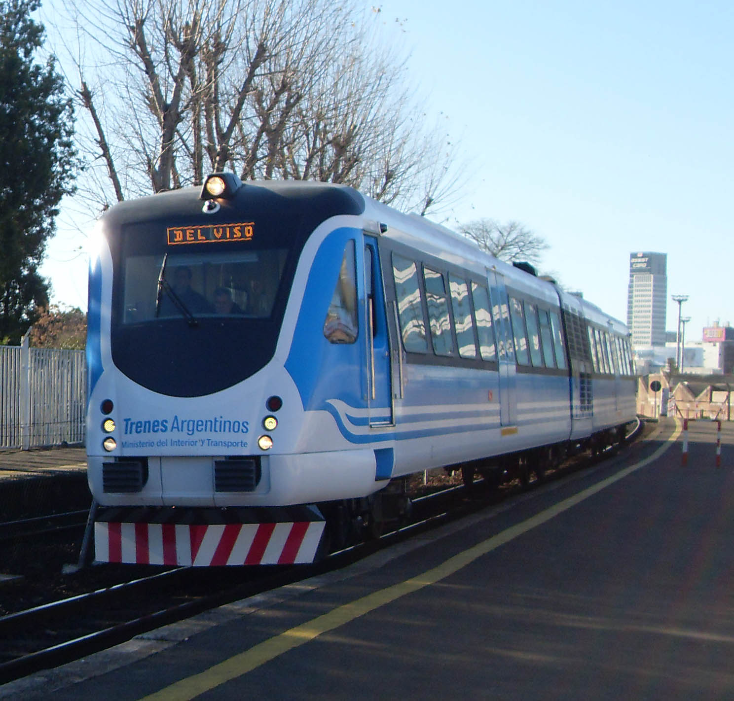 Diesel multiple unit by Emepa, running on the Belgrano Norte Line tracks. The train is crossing Padilla station to Del Viso.